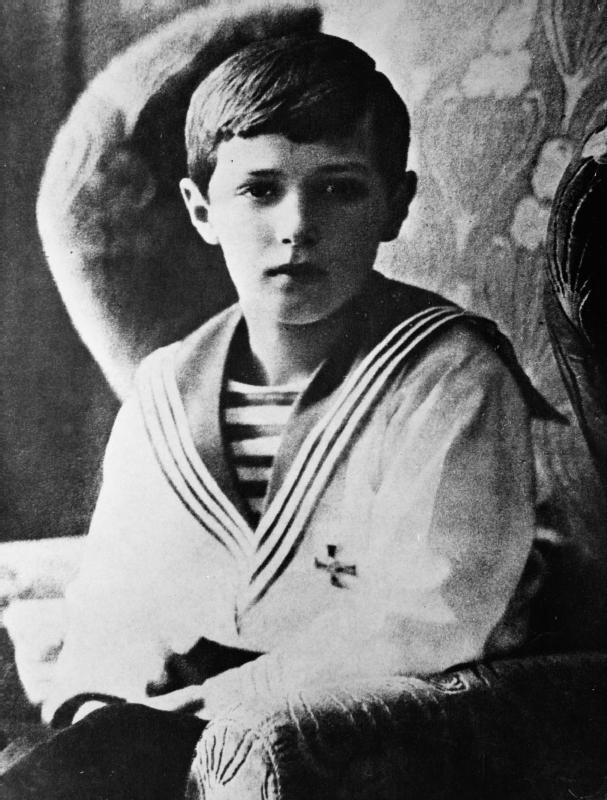 The Russian Tsarevich (1904 - 1918) Portrait of Tsarevich Alexei Nicholaevitch Romanov, only son of Tsar Nicholas II and heir to the Russian Imperial Crown. Alexei was born at Peterhof in July 1904, the youngest of the Tsar's five children. His health was fragile as a result of haemophilia and contributed to the Tsarina falling under the influence of the religious mystic Rasputin. Alexei was executed with the rest of his family at Yekaterinburg on 17 July 1918, a few days after his fourteenth birthday.